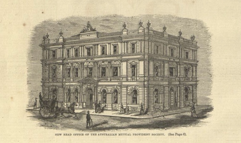 Newly built headquarters of the AMP in Sydney